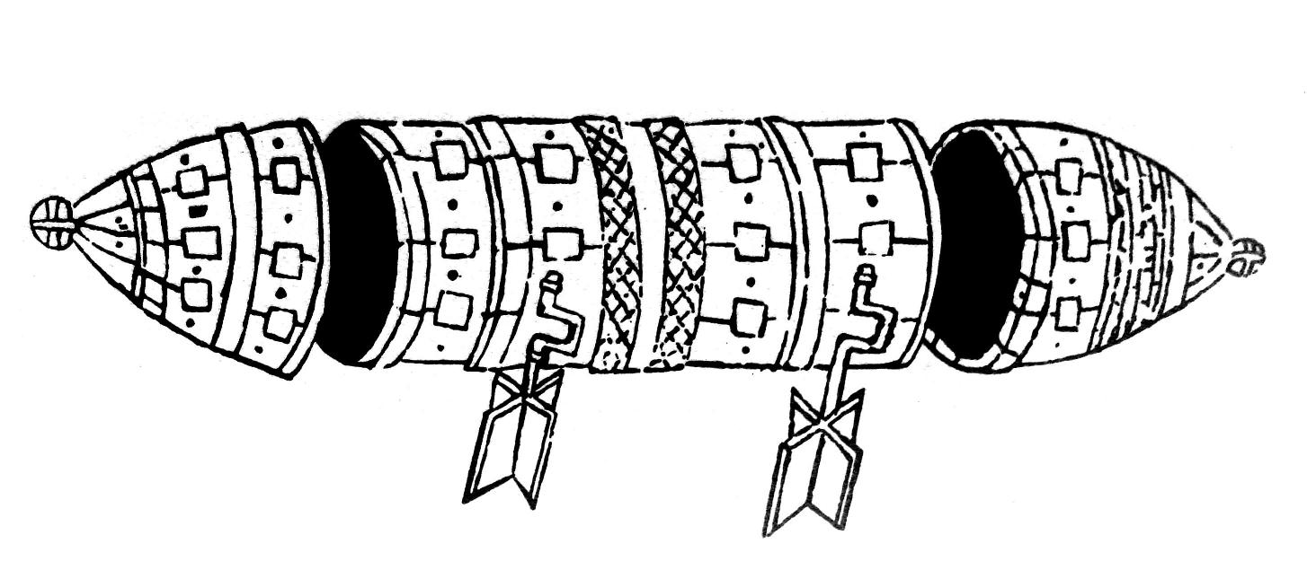 Roberto_Valturio_submarine, in De_Re_Militari, 1472